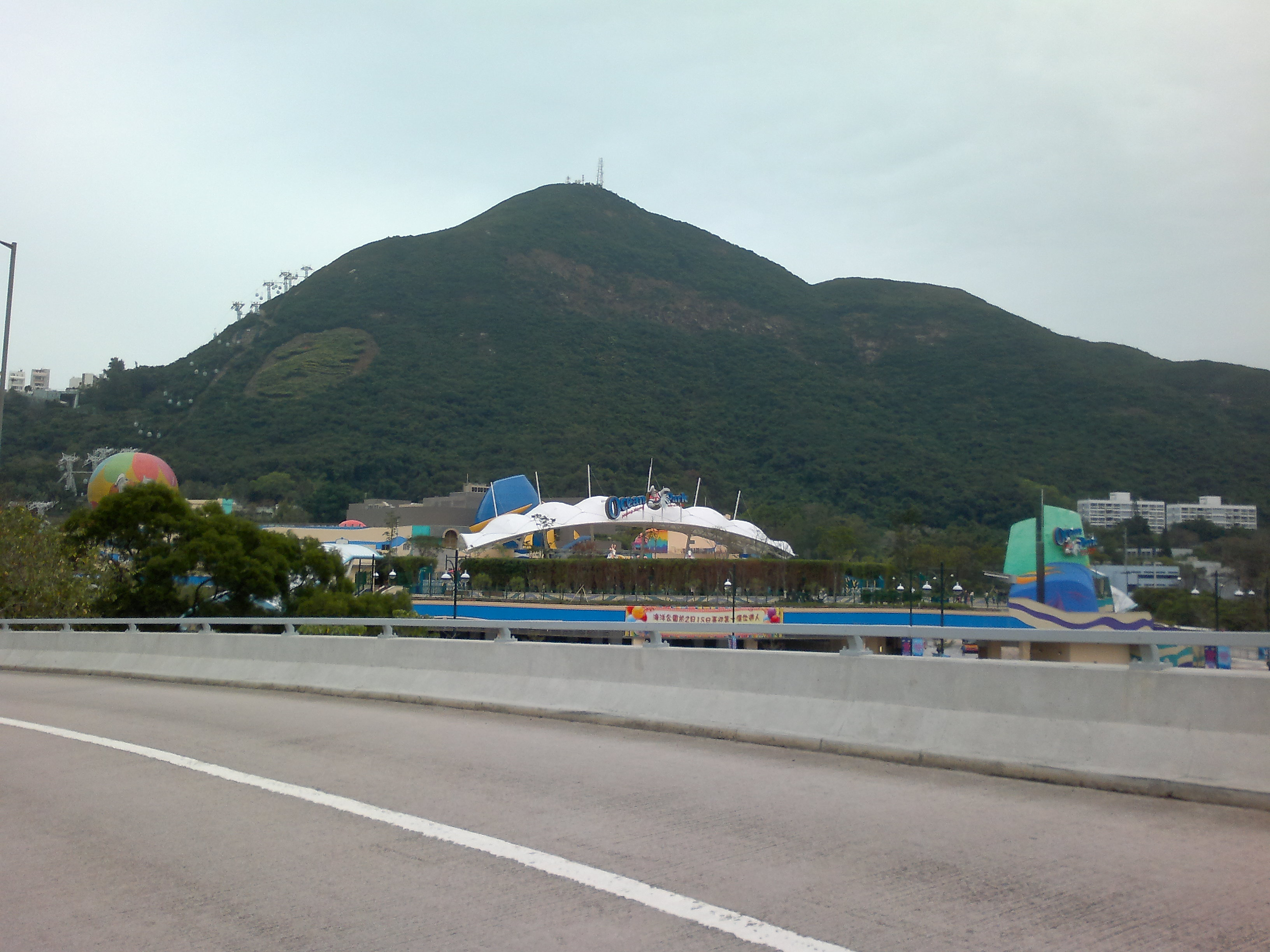 Nam Long Shan near Ocean Park Entrance